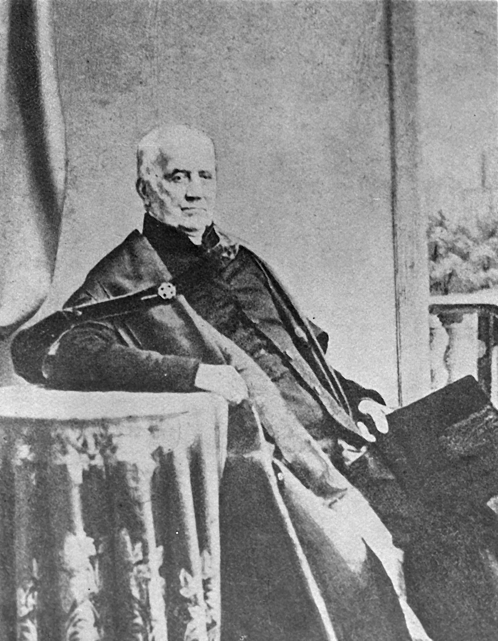 Archdeacon Charles Thorp (1783-1862), Rector of Holy Cross parish church, Ryton, County Durham, and later Warden of Durham University Modified version of existing File:Archdeacon_Charles_Thorp.jpg - cropped, halftone moire removed, levels adjusted